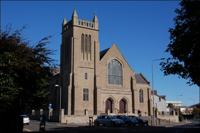 Hamilton Road Presbyterian Church, Bangor Hamilton Road Presbyterian church was built in 1898-99. The tower and vestibule were added in 1964-66. There are another two Presbyterian churches within five minutes walk.